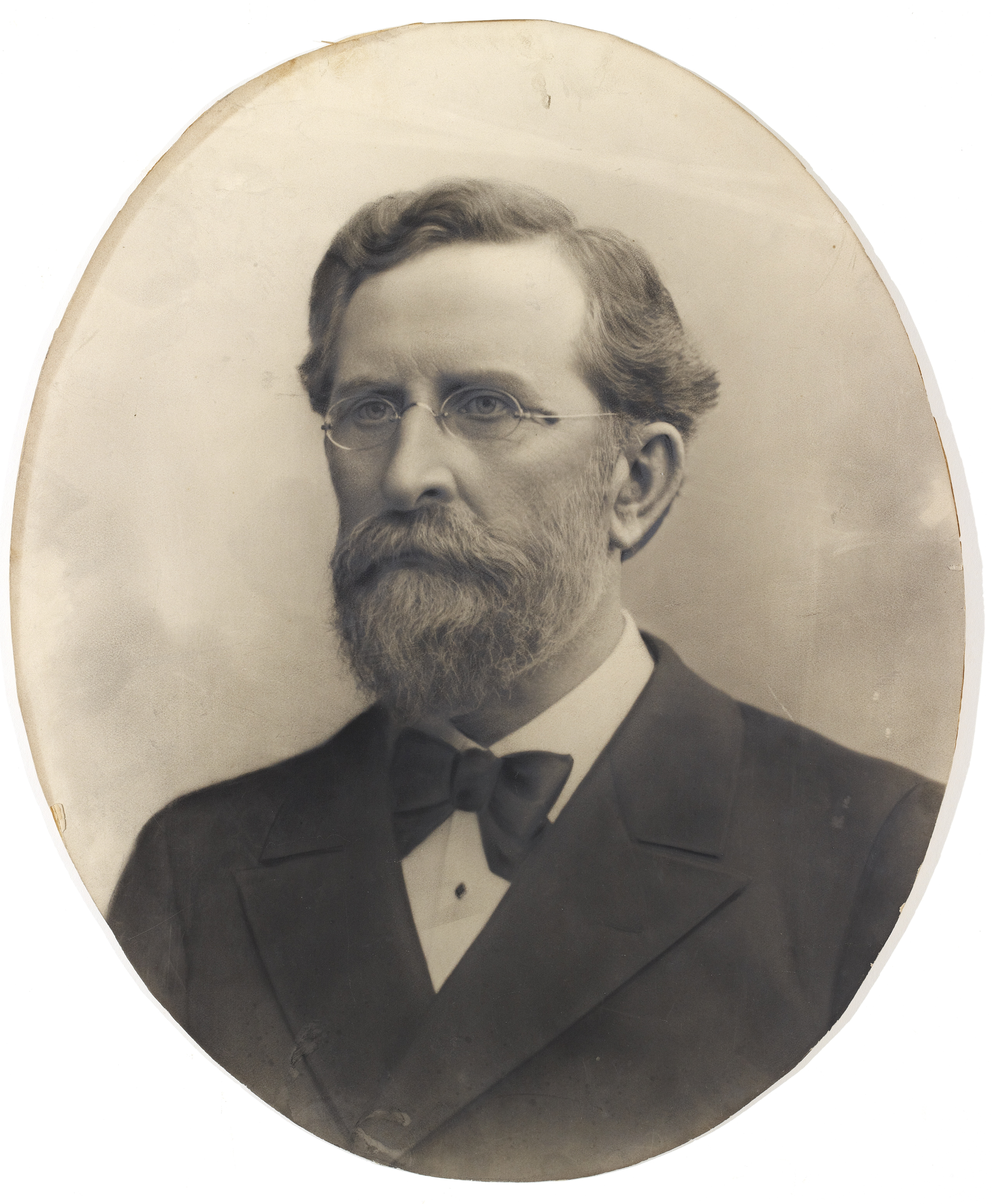 Photograph of the Finnish politician and banker Karl Felix Heikel (1844–1921).